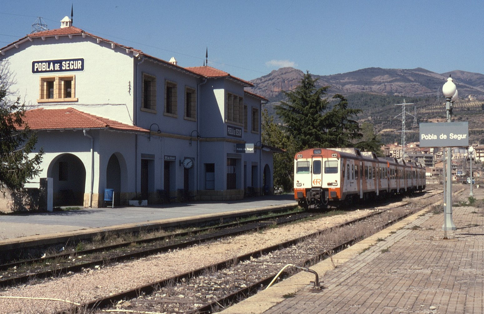 The branch from Lleida to Pobla de Segur was operated by RENFE until taken over by local government owned Ferrocarrils de la Generalitat de Catalunya (FGC) in 2005. Seen at the rather run down terminus, 592.016/022 on train 5605 17:45 Pobla de Segur to Lleida on 26 March 1995.